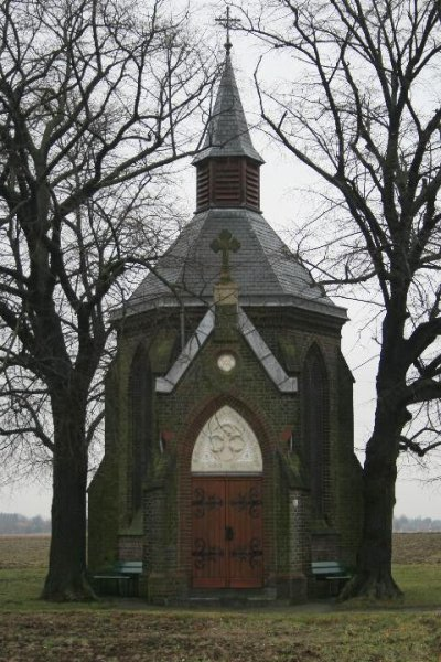 Cultural heritage monument No. 15 in Selfkant